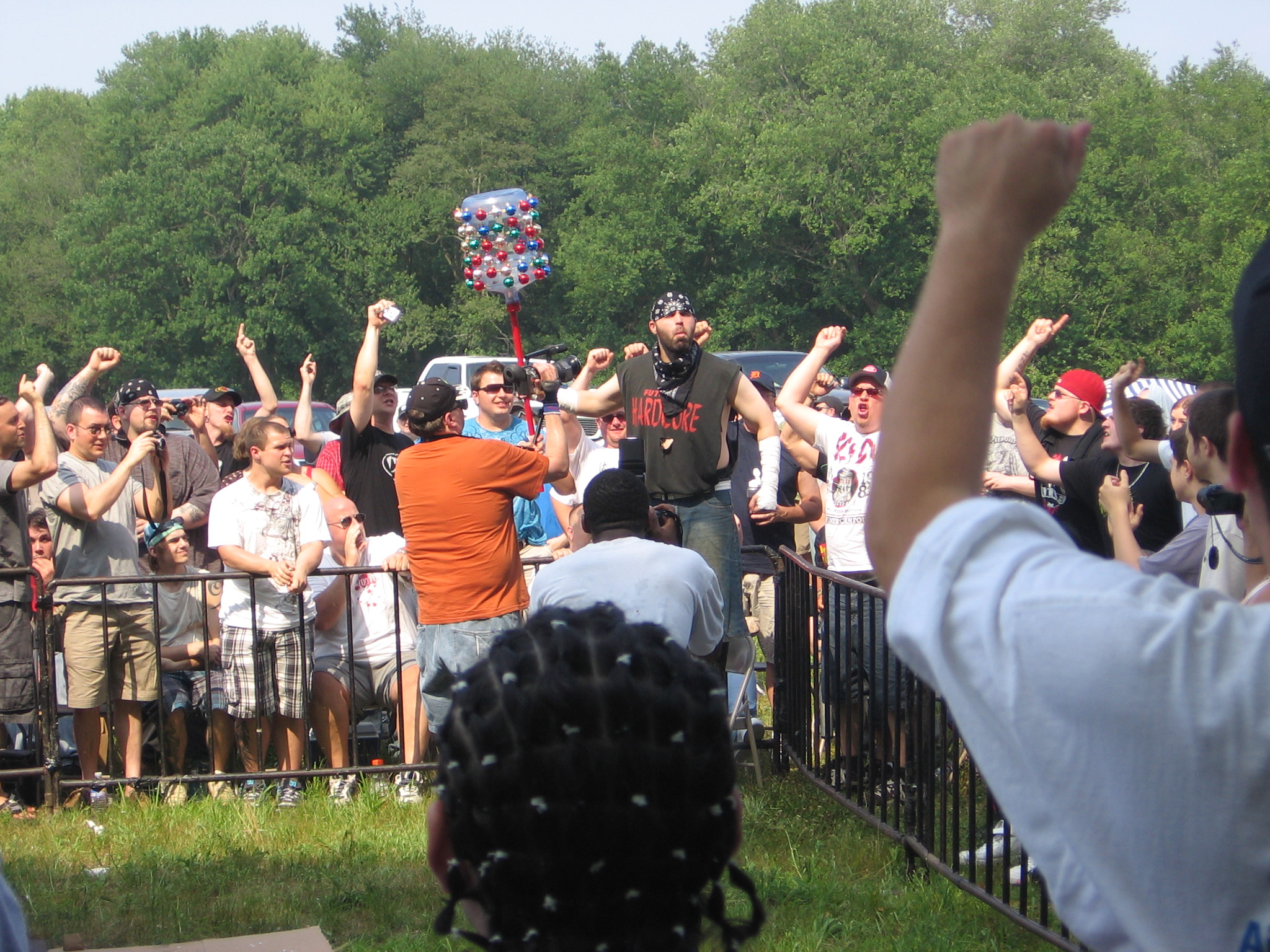 Nick Gage with a waterjug bat covered in glass christmas ornaments - Tournament of Death 9.